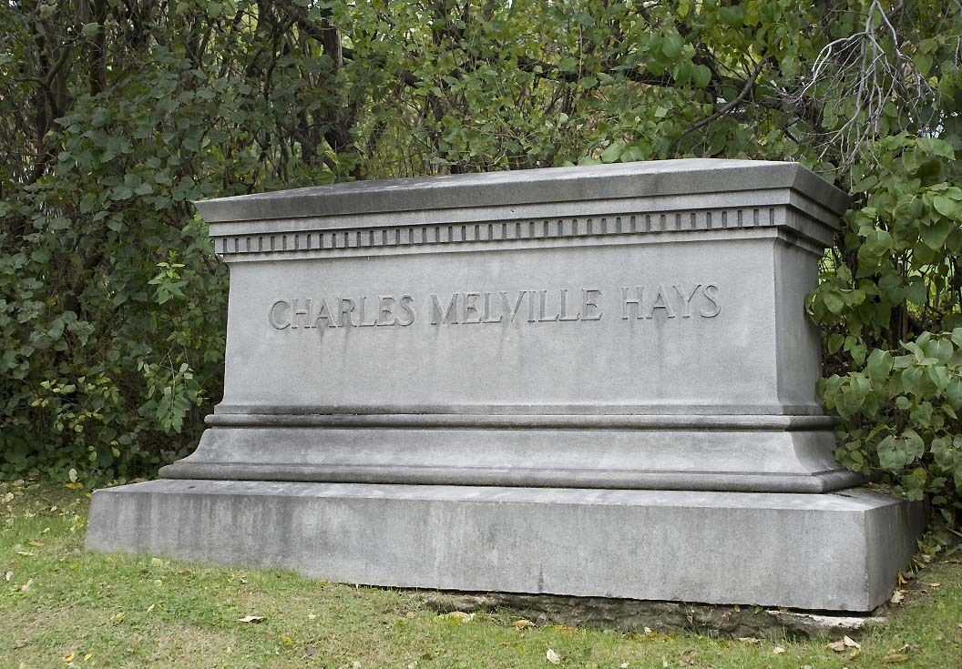 Grand Trunk president Charles Melville Hays tombstone in Mont-Royal cemetery in Montréal, Québec